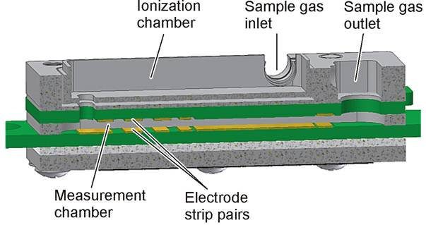 Example of IMS censor.